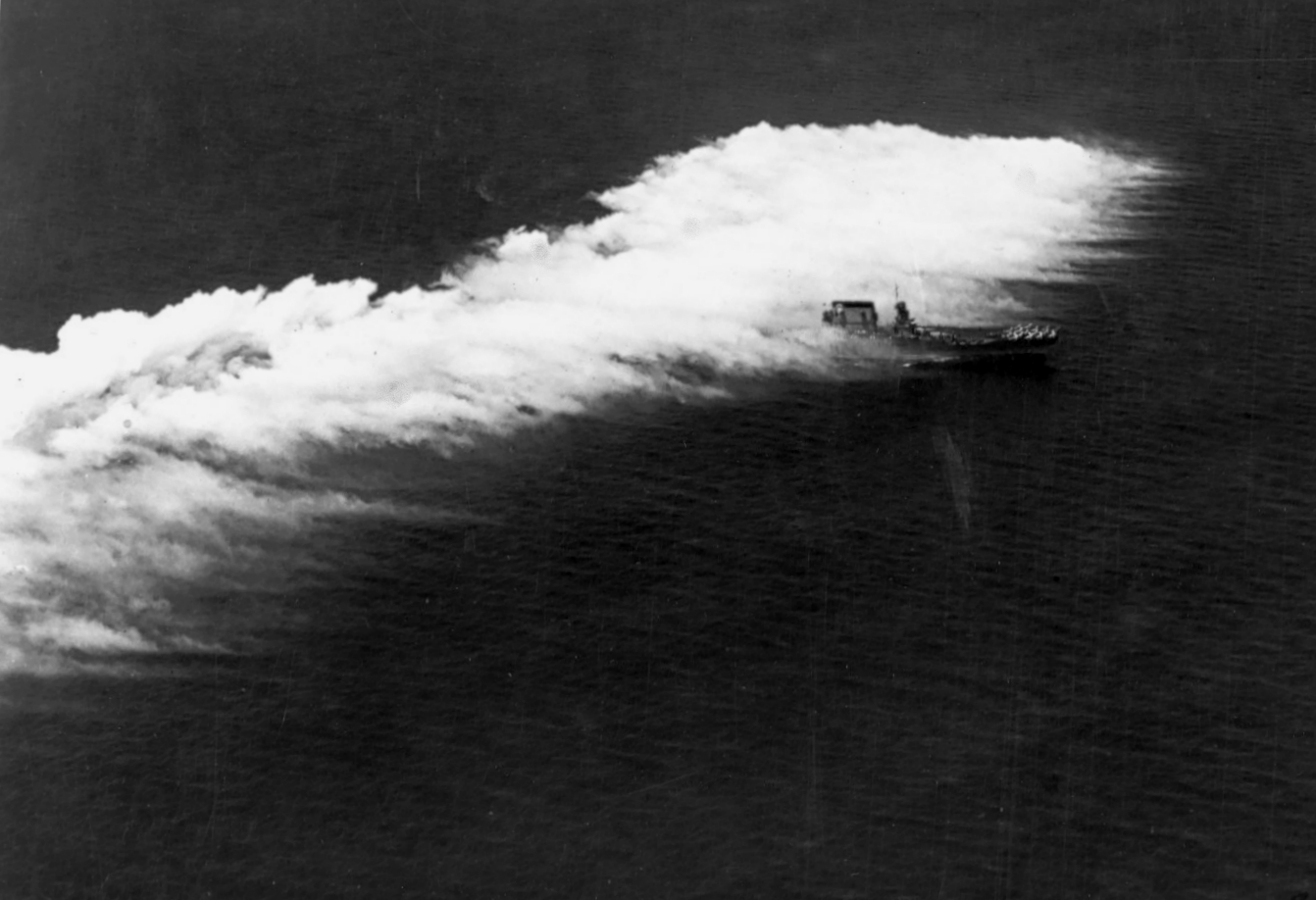 The U.S. Navy aircraft carrier USS Lexington (CV-2) steams through an aircraft-deployed smoke screen off Panama, 26 February 1929, shortly after that year's "Fleet Problem" exercises.